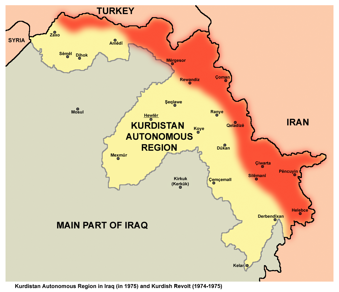 Kurdish Autonomous Region in Northern Iraq (1970-1975) and extension of the Kurdish revolt (1974-1975) inside this region (red) according to a map in Der Fischer Weltalmanach 1976, page 371 (ed. by Gustav Fochler-Hauke 1975 in Frankfurt/Main)